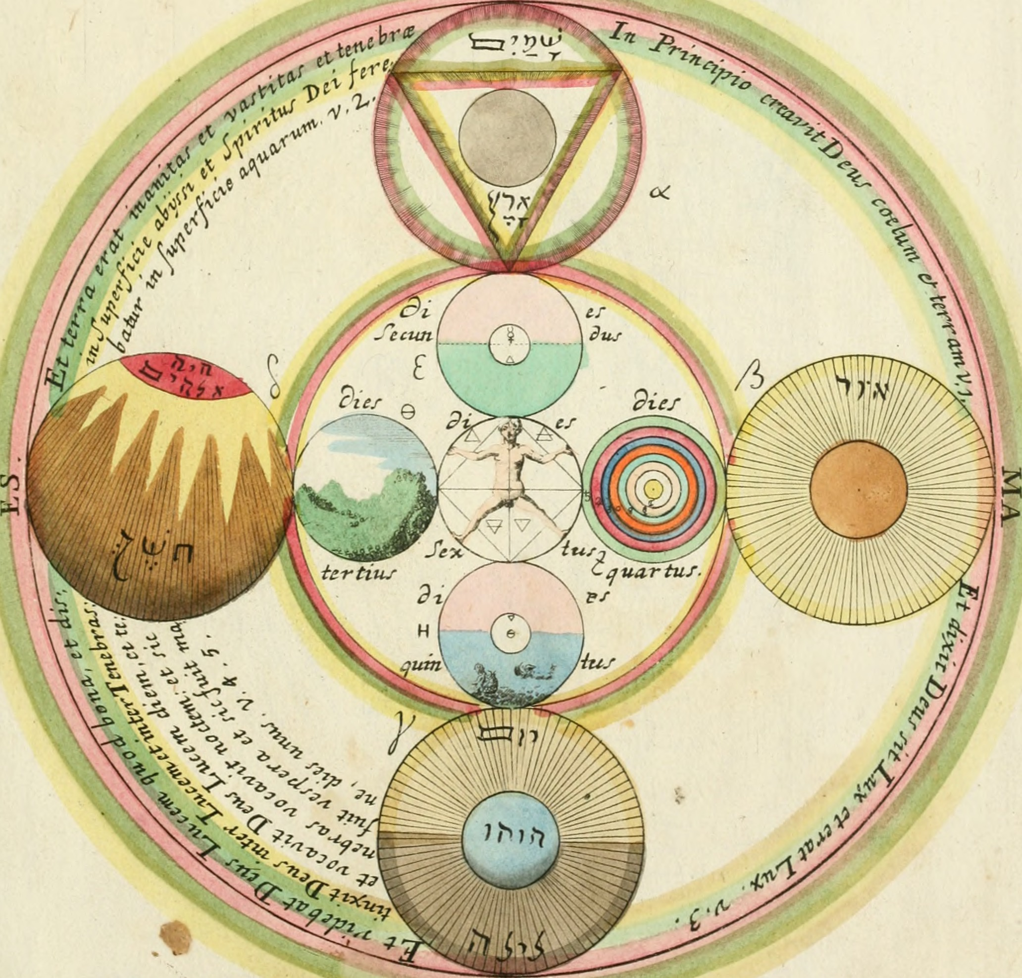 Title: Opus mago-cabalisticum et theologicum : vom Uhrsprung und Erzeugung des Saltzes, dessen Natur und Eigenschafft, wie auch dessen Nutz und Gebrauch ... Year: 1719 (1710s) Authors: Welling, Georg von, 1655-1727 Subjects: Alchemy Magic Cabala Theology Publisher: Franckfurth am Mayn : Gedruckt bey Anton Heinscheidt Text Appearing Before Image: ?. * * N\jrz 0^ 112a.a. Cabaii.an. PRI Text Appearing After Image: la 5- r.- Na 53 kk.üyujmci^.Cab. Q1Ö J^A